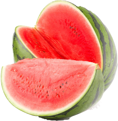 A watermelon piece with his seeds.